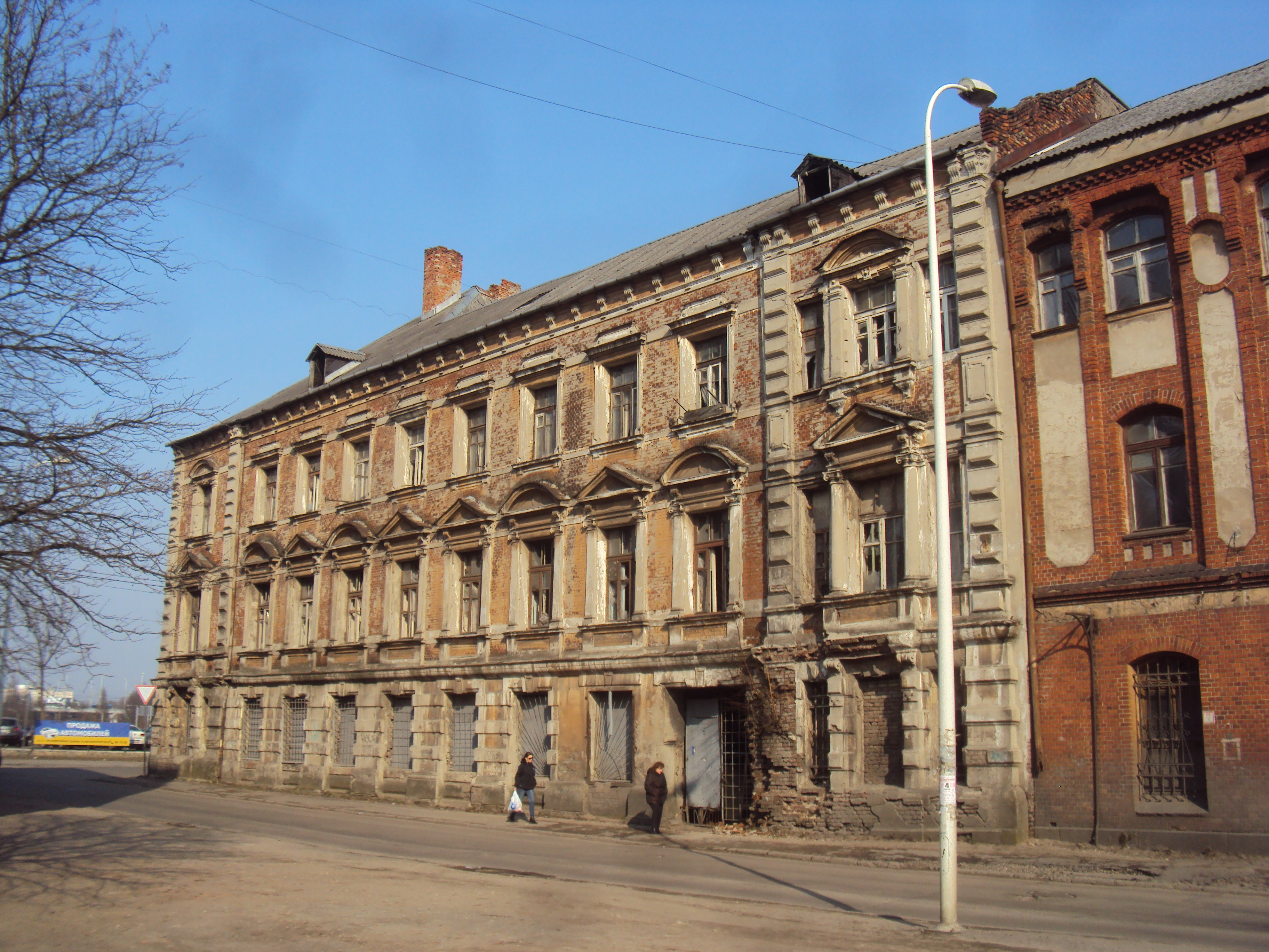 Building Amber Manufactory